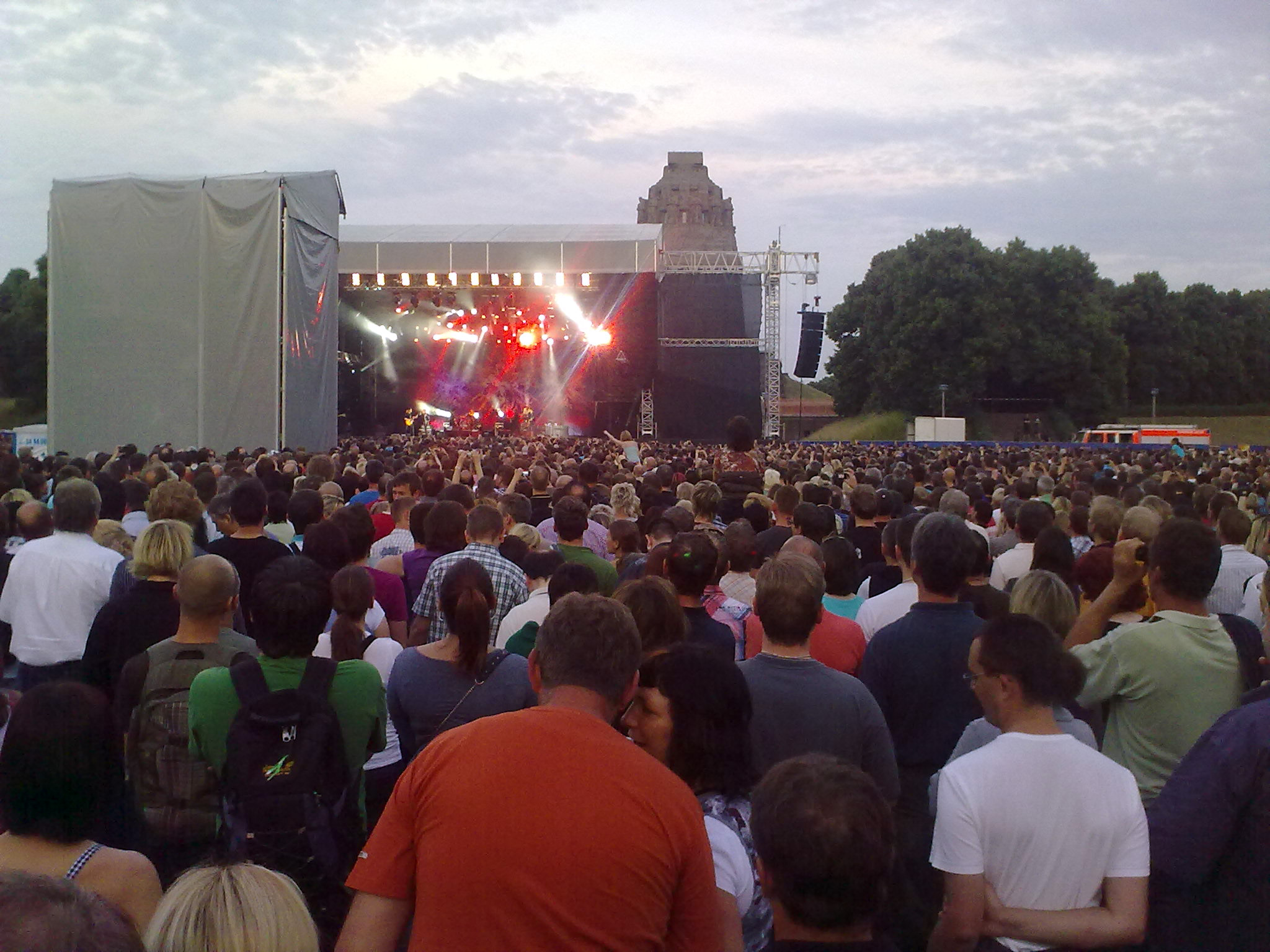 Roxette live in Leipzig during Charm School Tour on 15 June 2011